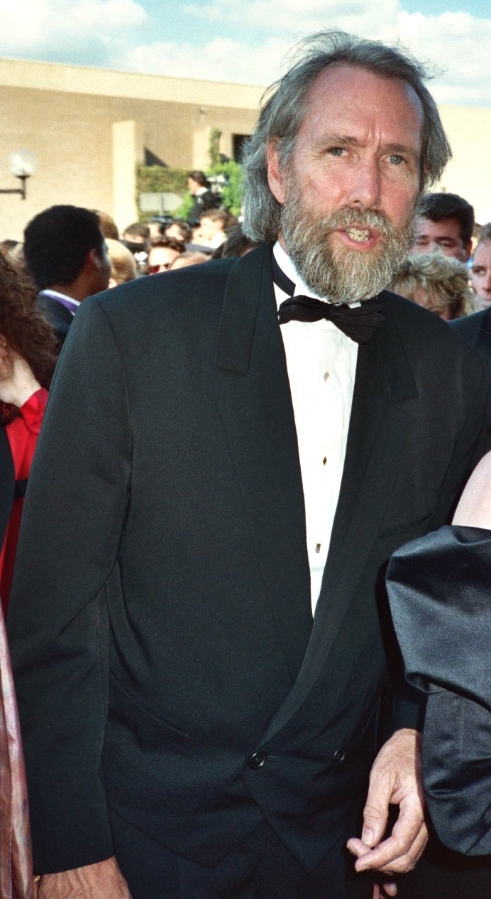 Photo of puppeteer Jim Henson at the 41st Emmy Awards.